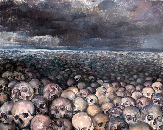 Josef Hnízdil, Native heath, 2003